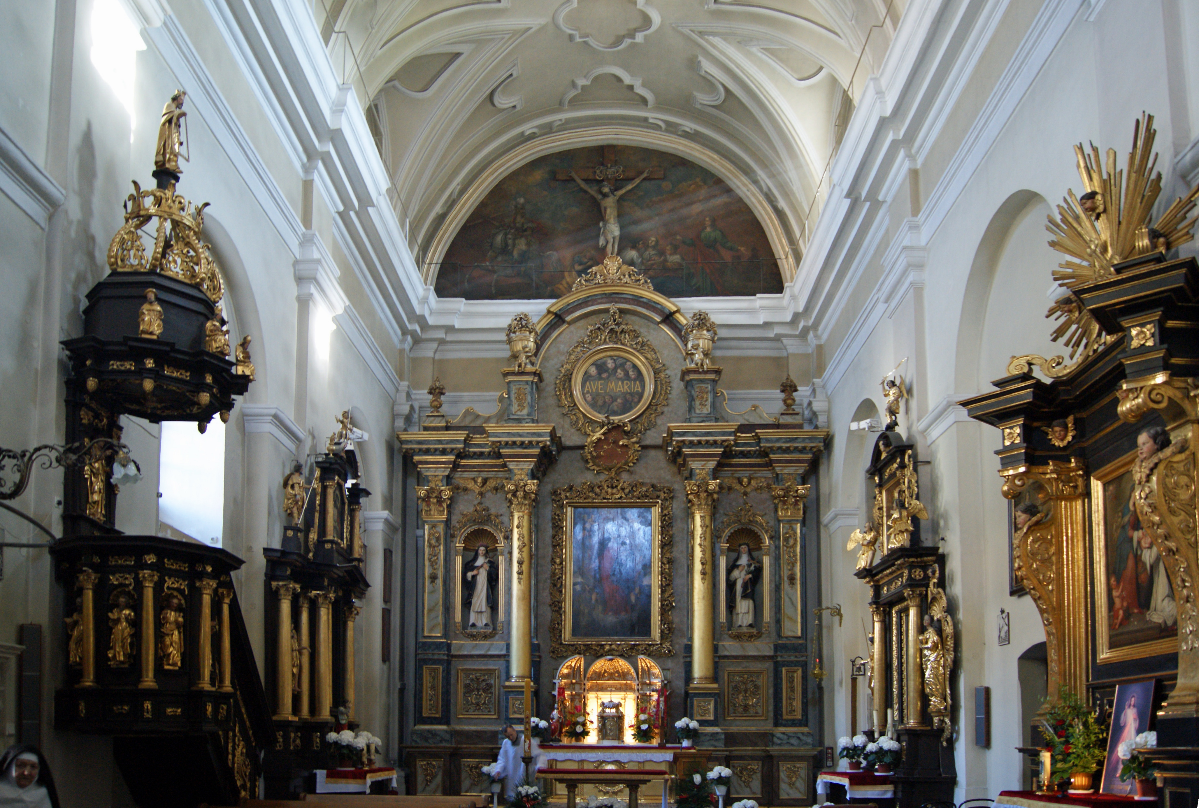 Church of Our Lady of the Snows (interior), 21 Mikolajska street, Old Town, Krakow, Poland